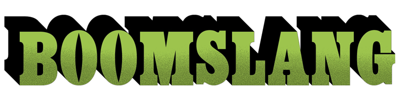 The logo for the Lexington, Kentucky-based Boomslang musical festival